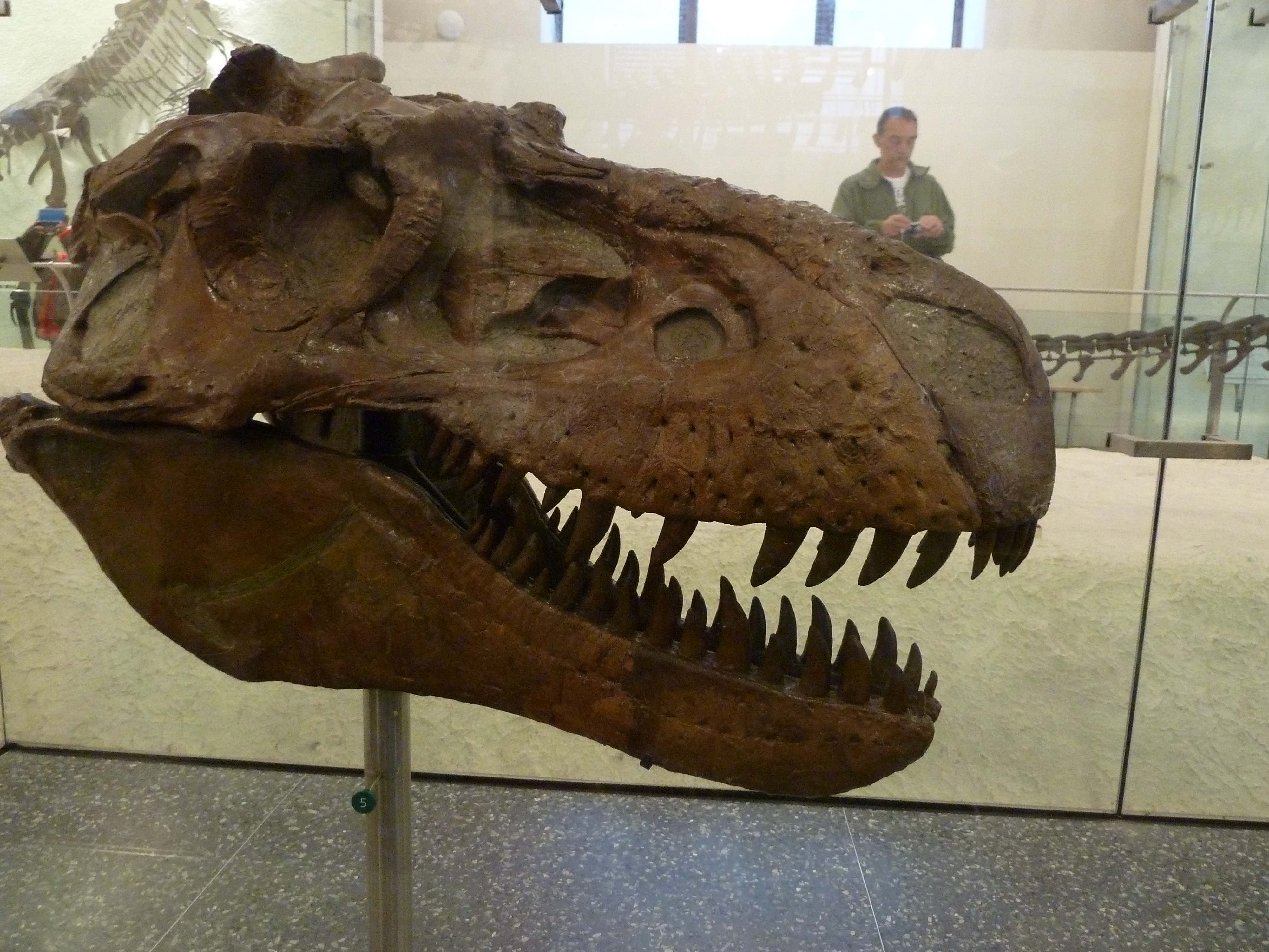 Fossil Gorgosaurus, American Museum of Natural History